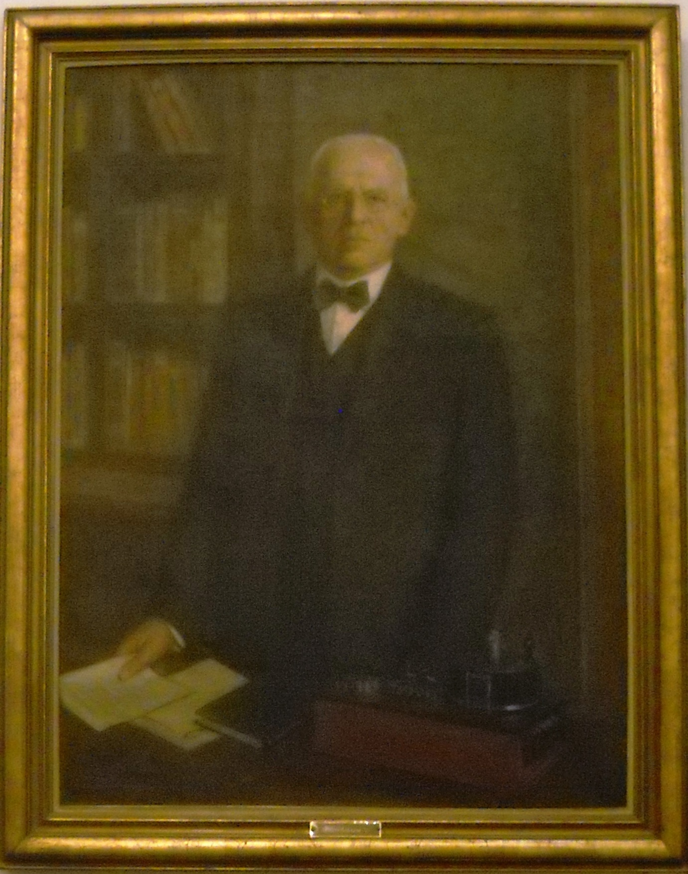 Portrait of Arturo Salazar at the Escuela de Ingeniería, Universidad de Chile